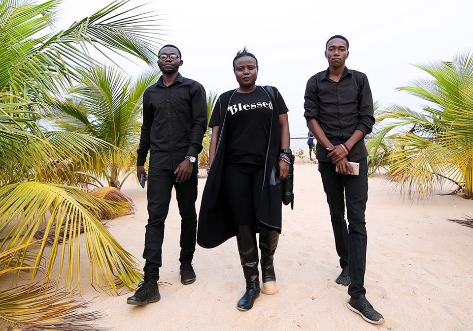 Senyuiedzorm Adadavoh and Team